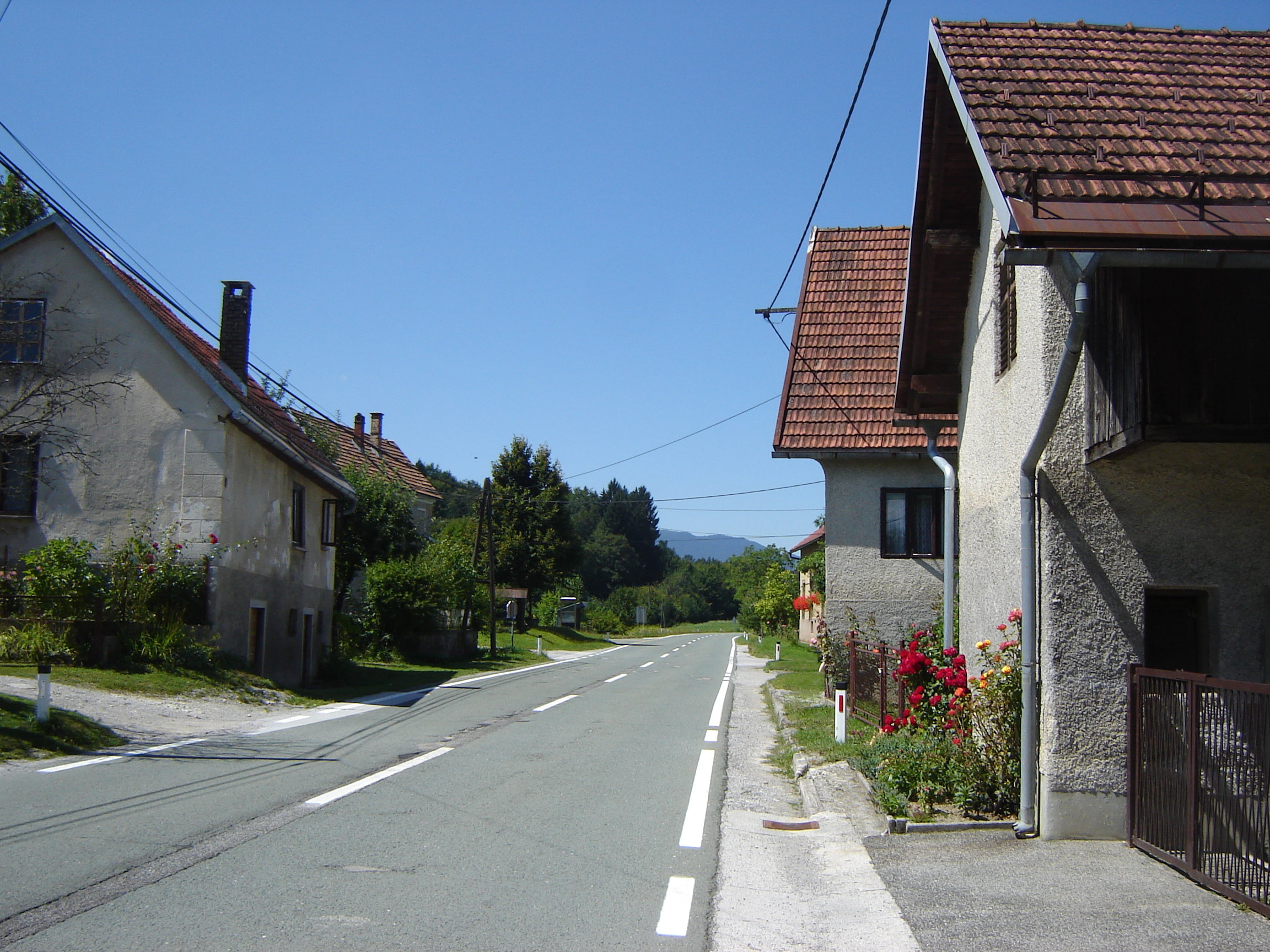 Village Nova sela in Kostel municipality